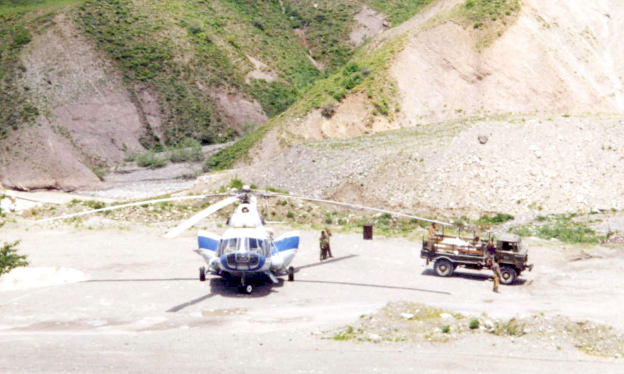 Tajik military roulement begins. The Mil Mi-8 helicopter on the picture belongs to Tajik Air. The truck on the picture is a GAZ-66.